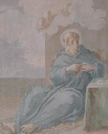 Fresco of Saint Amadeus